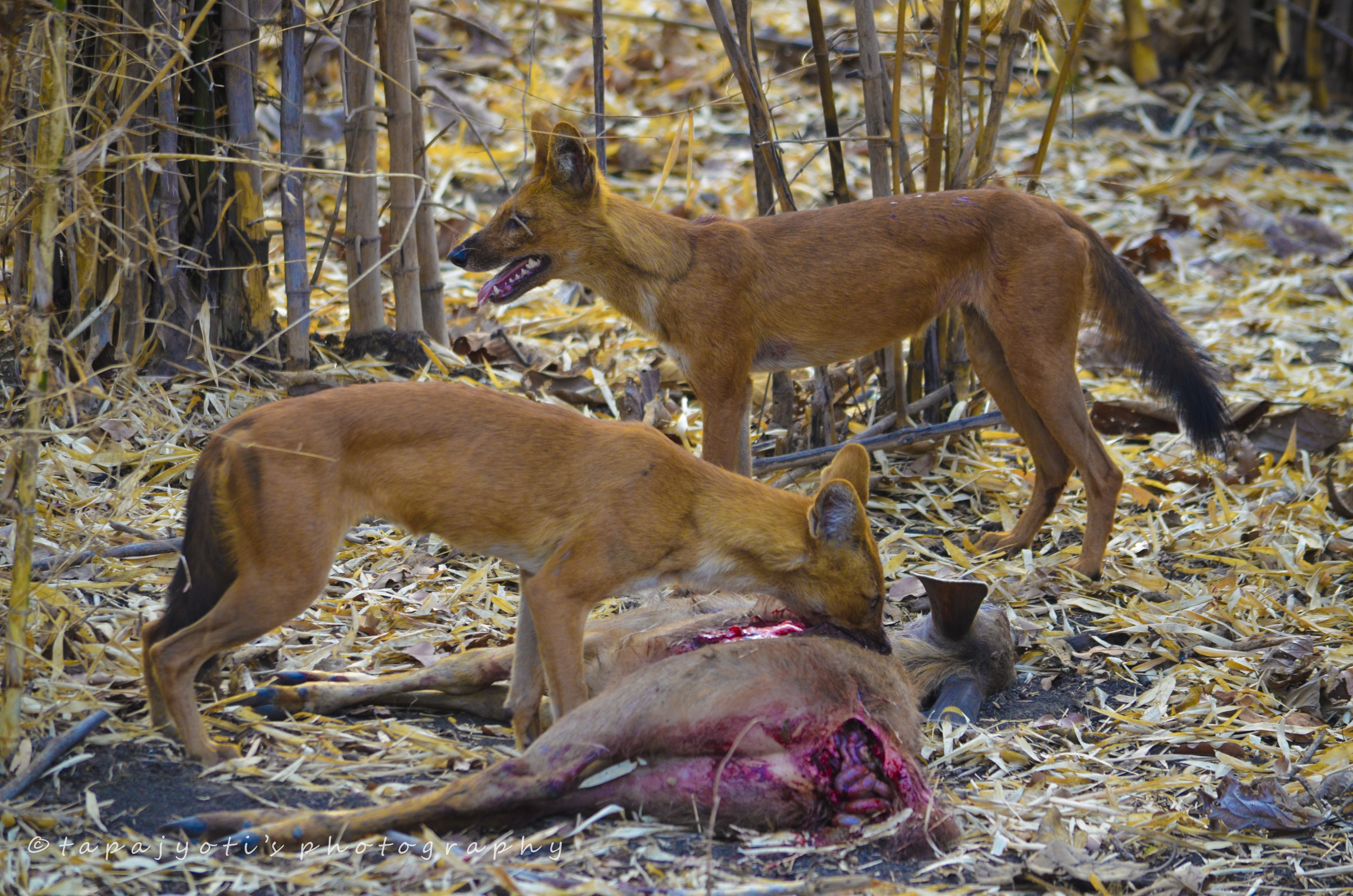 wild dogs (dhol) in Tadoba, maharashtra